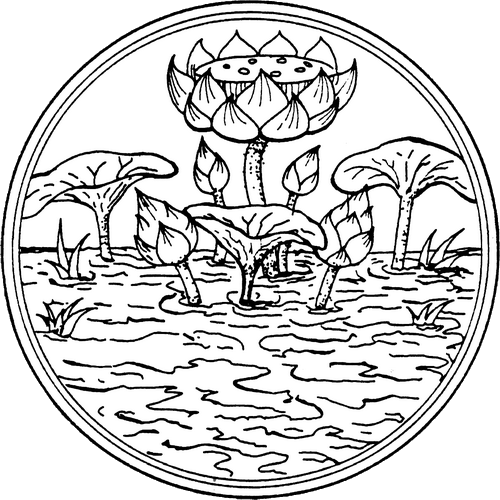 Provincial seal of Ubon Ratchathani province.